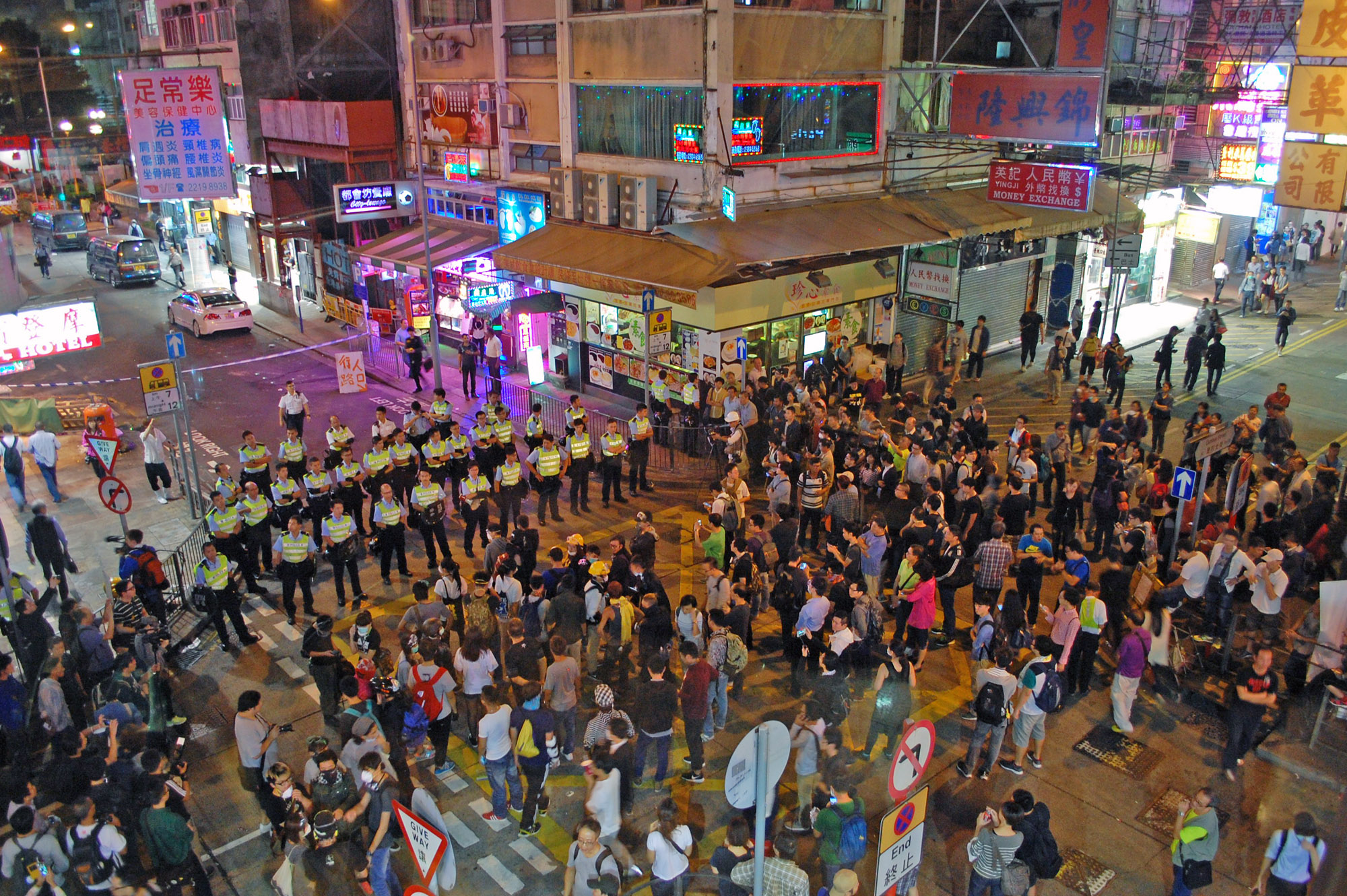 Umbrella Movement protests, Mong Kok, Hong Kong on 25 November 2014. Protesters gather at the junction of Portland and Dundas streets as a police cordon blocks access to the northern portion of Portland Street.